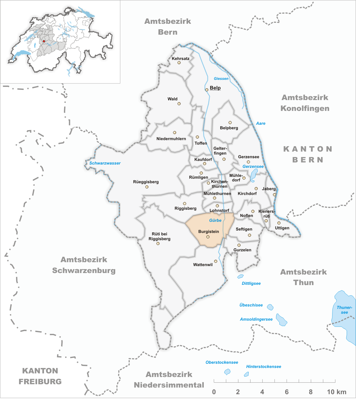 Municipality Burgistein